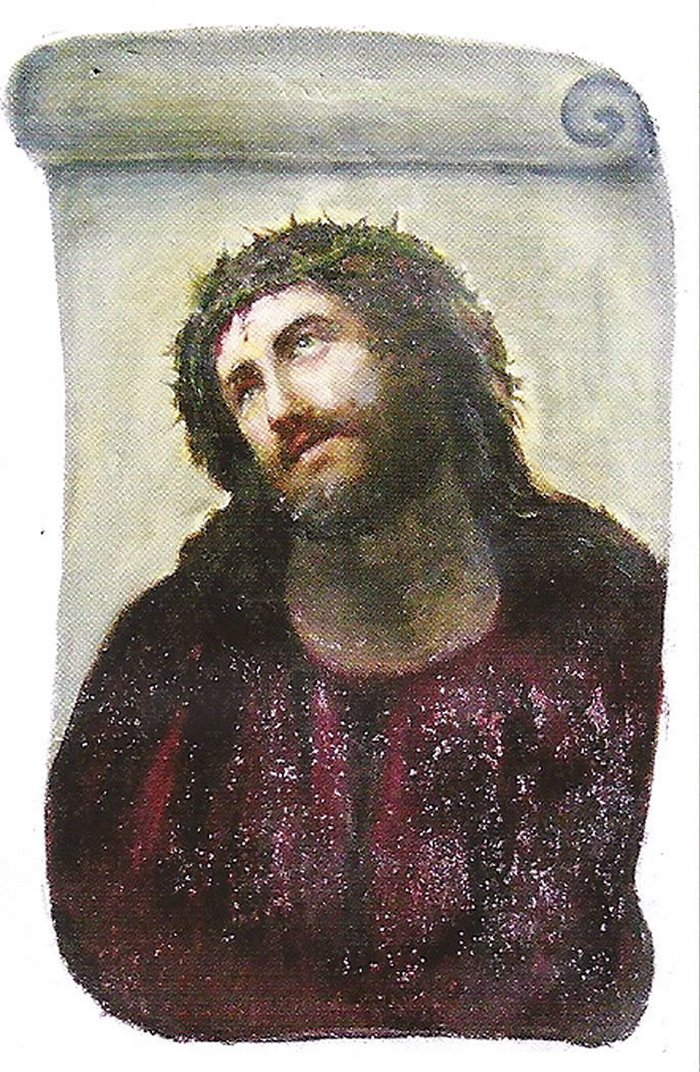 This painting was destroyed in August 2012 by Cecília Gimenez, in a disastrous restoration attempt.